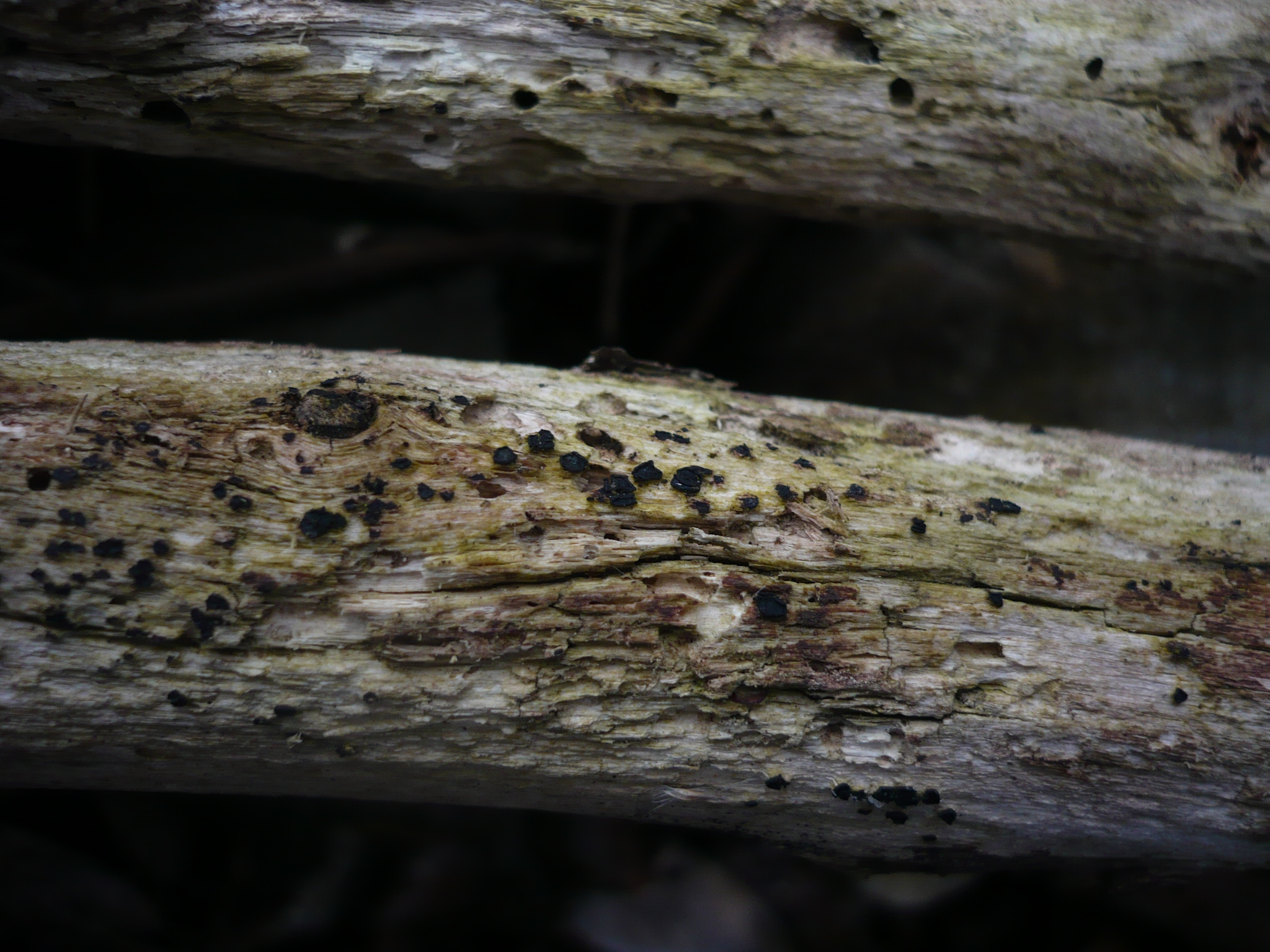 The ascomycete fungus Lecanidion atratum (Syn.: Patellaria atrata). Specimen photographed in Burgstall Nußdorf, Vienna, Austria.